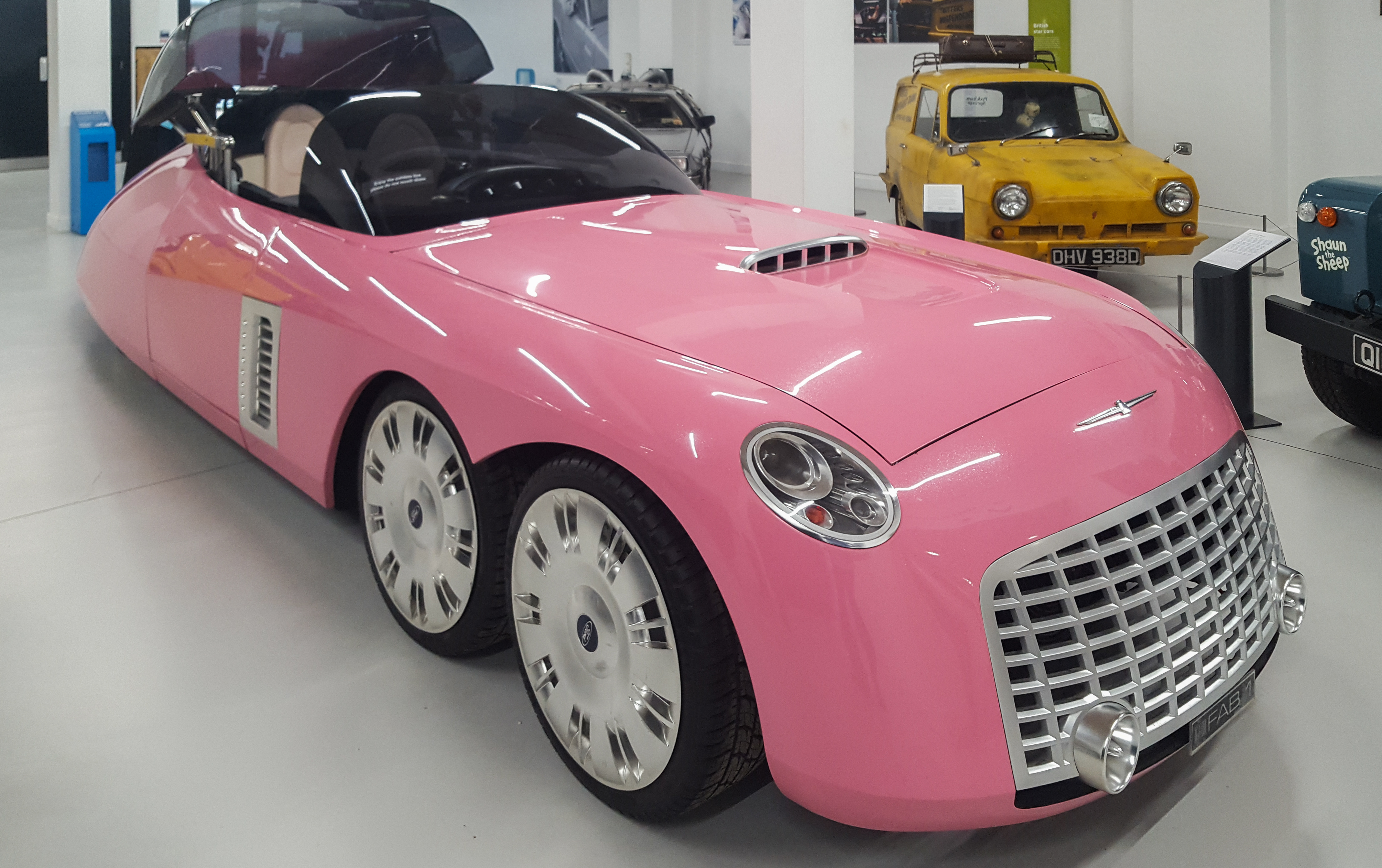 The 2004 FAB 1 Thunderbirds car. This car, designed by Ford of Europe for the 2004 Thunderbirds film, is now kept at the British Motor Museum, Gaydon, UK.